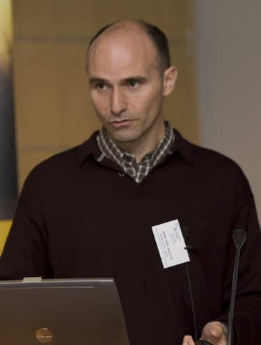 Jean-Yves DuclosThis is a cropped version of the photograph. The title of this photograph at its source is: 3.1: Poverty and growth.